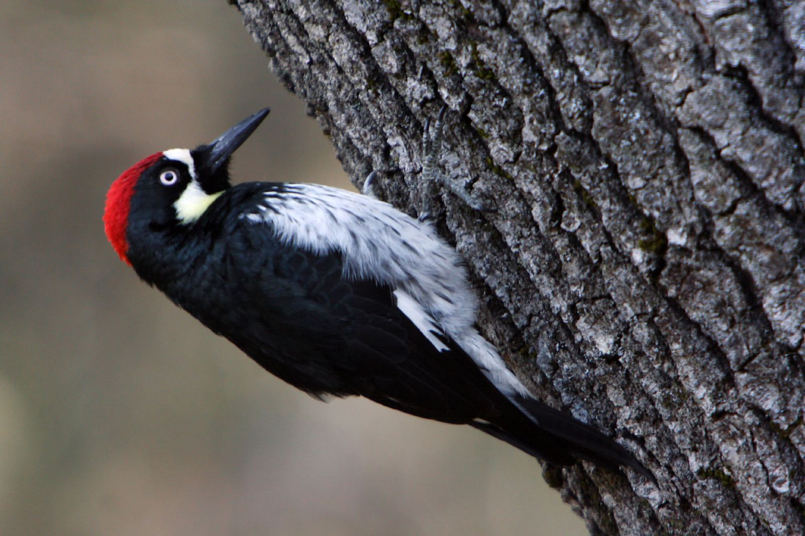 There I was, waiting for a nuthatch to show up in a spot he frequents, when this Acorn Woodpecker jumped in front of my lens. He was only about 12 feet away on a Black Oak tree.